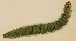 Stainton’s Natural History of the Tineina (1855–1873): Bucculatrix demaryella